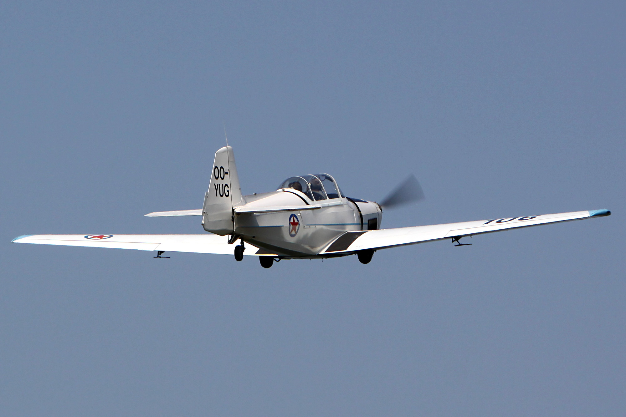 OO-YUG Zlin 526M